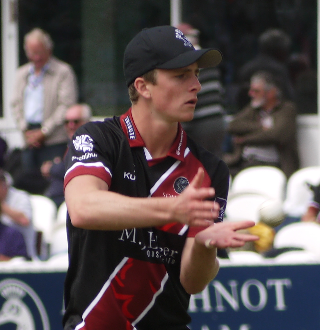 Tom Abell practising fielding during his List A debut for Somerset against Durham